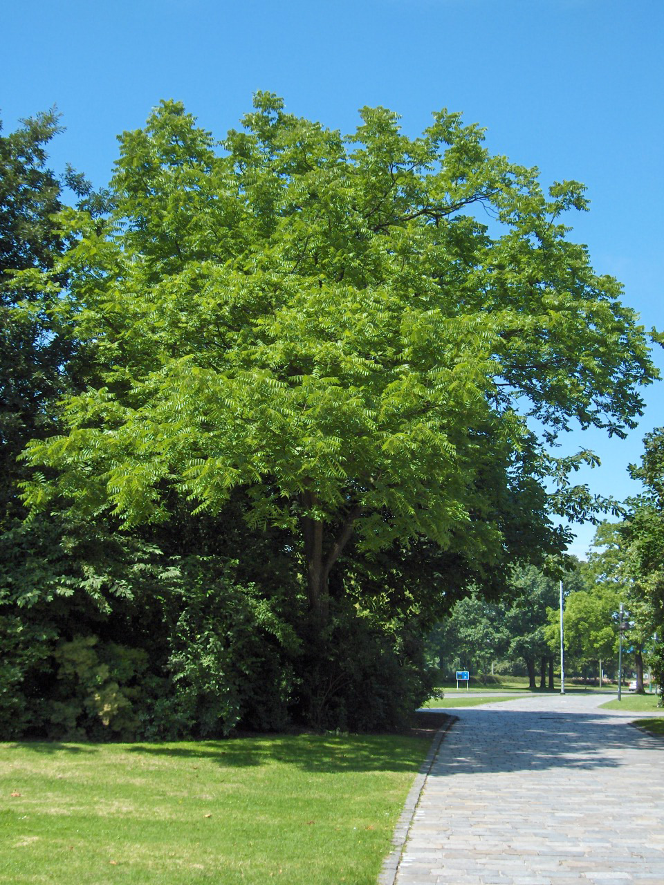 Species Juglans nigra Family Juglandaceae